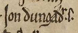 The name of Eóghan Mac Dubhghaill (died c. 1268×1275) as it appears on folio 114v of AM 45 fol (Codex Frisianus): "Jon Dungaðarson".